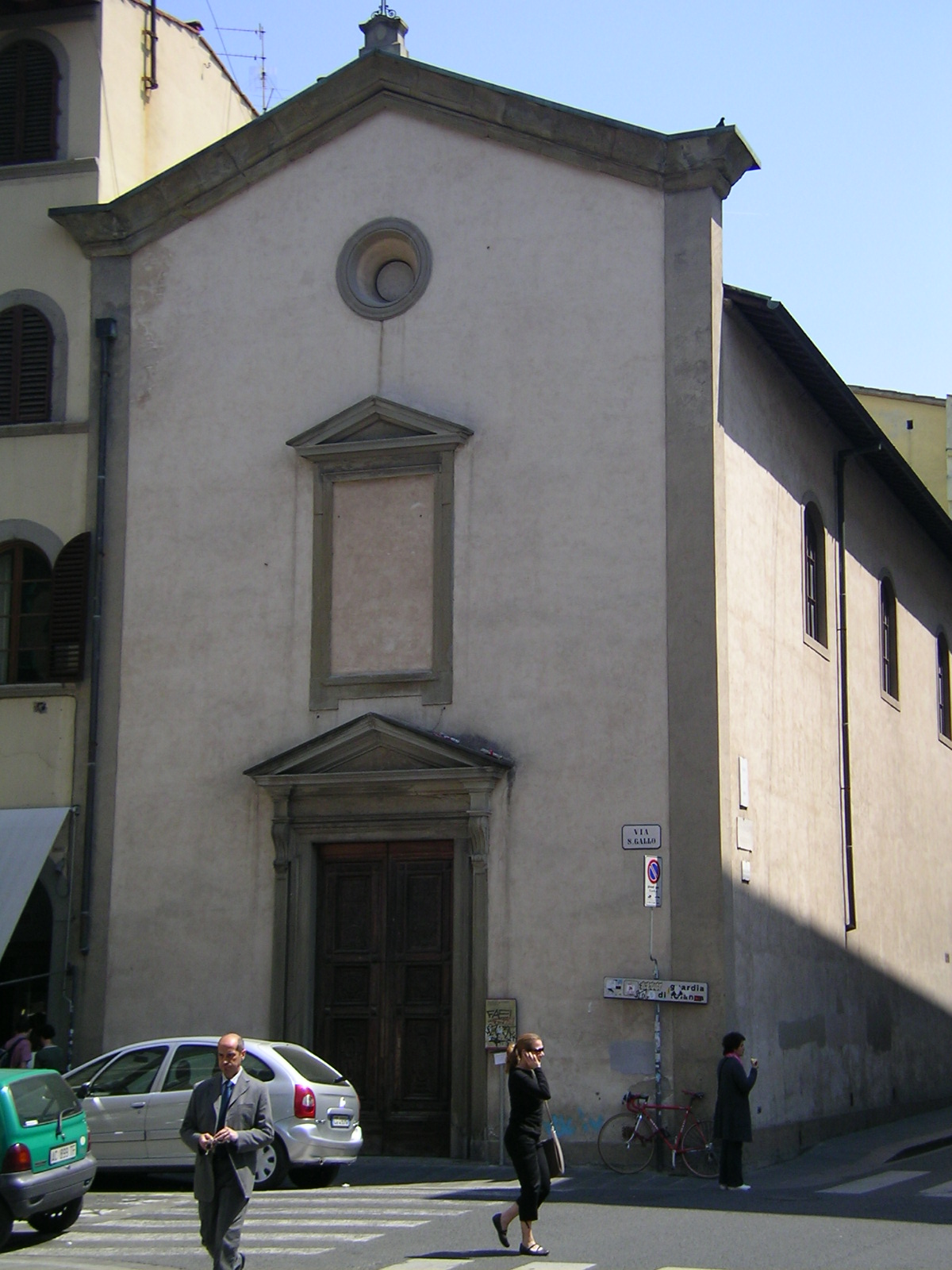 Gesù Pellegrino Oratory front view in Florence, Italy